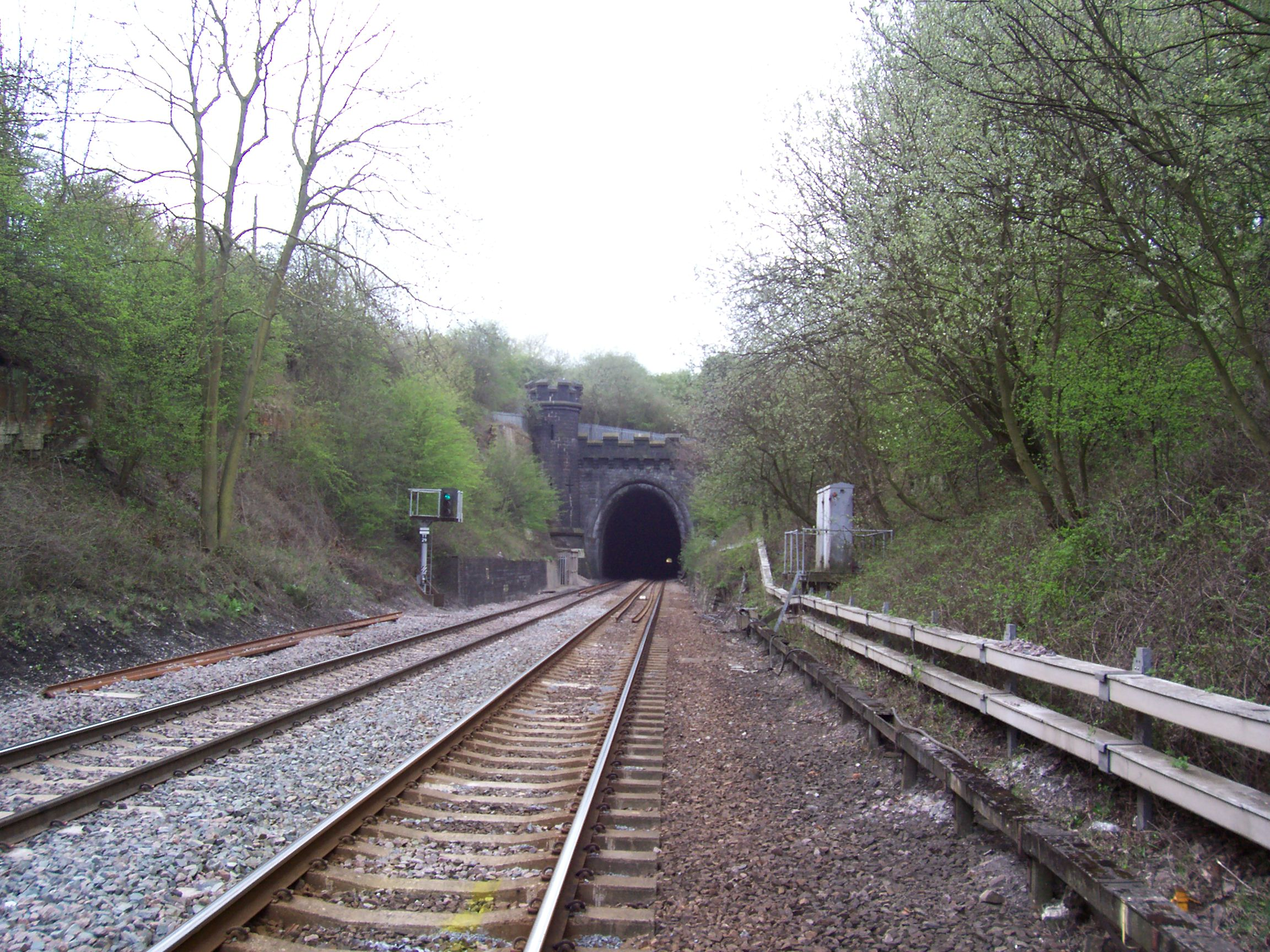 I took this photograph while working on the railway.